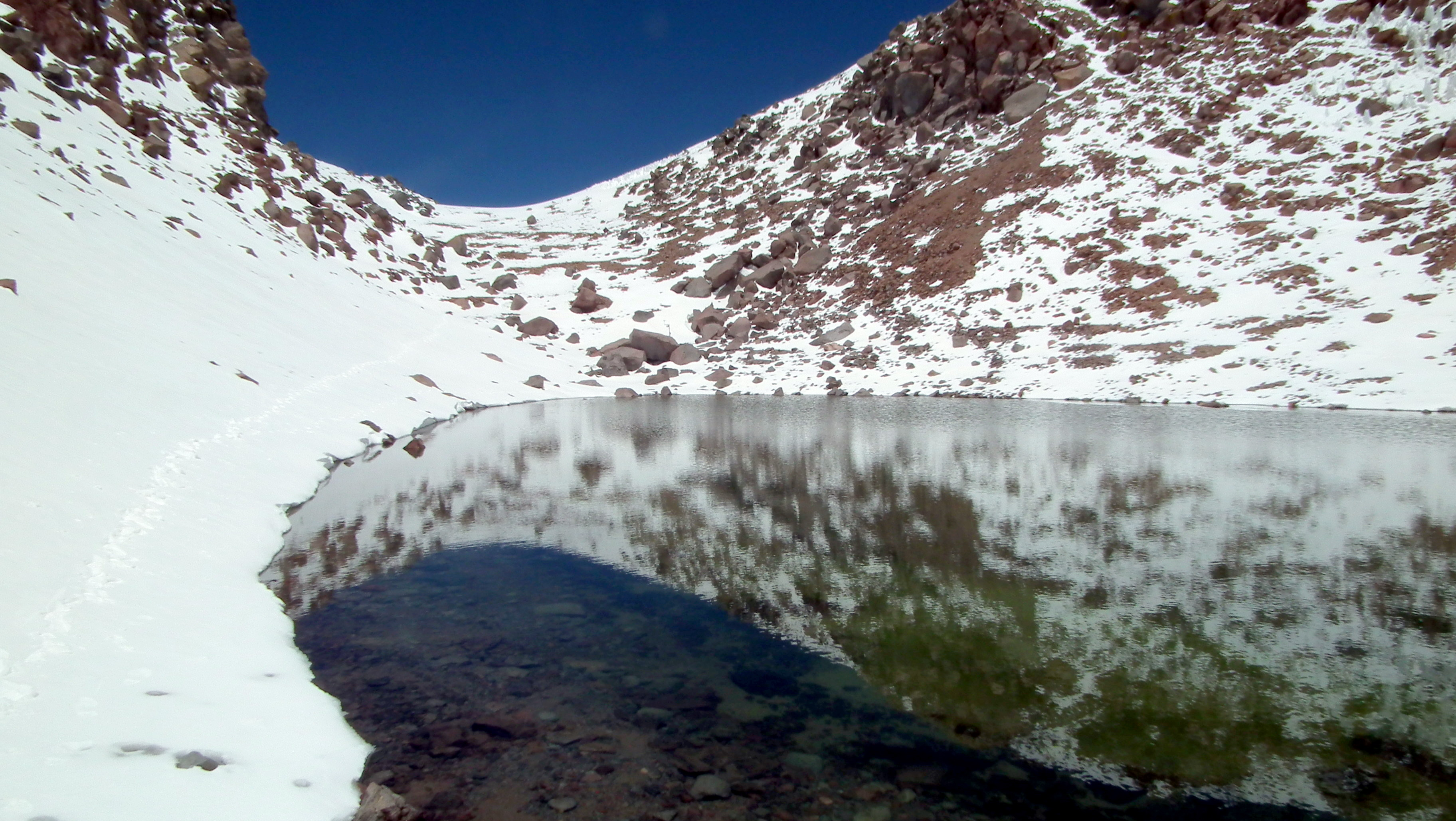 Crater Lake of Licancabur, Chile.